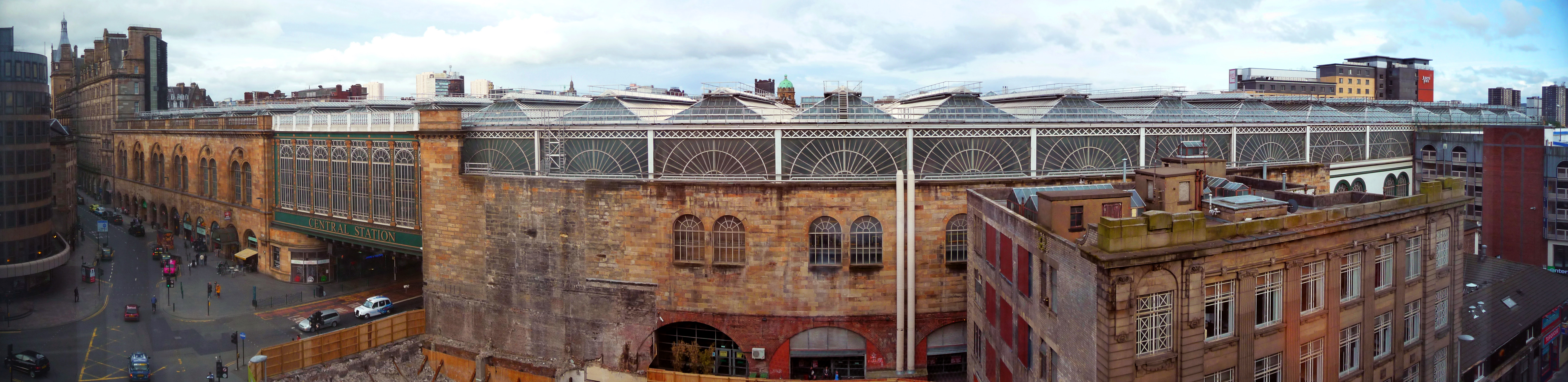 View of Central station from 5th floor of Radisson SAS hotel